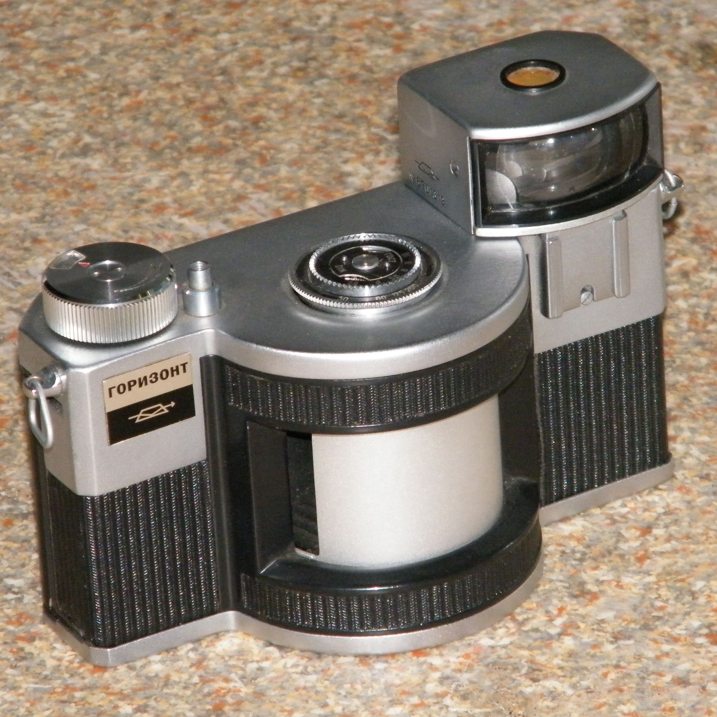 Gorizont Russian camera 1967